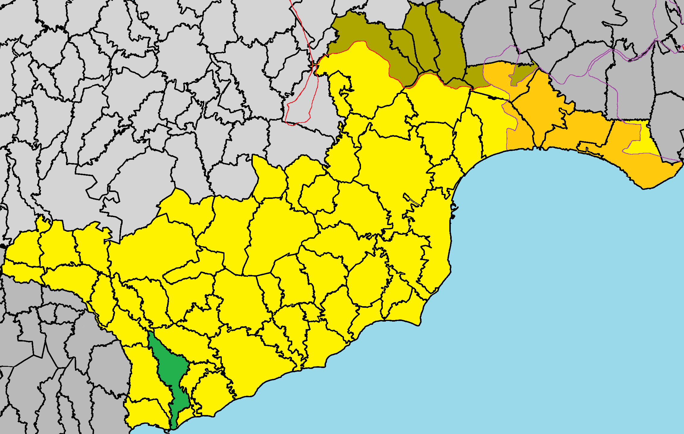 Tochni in Larnaca District.